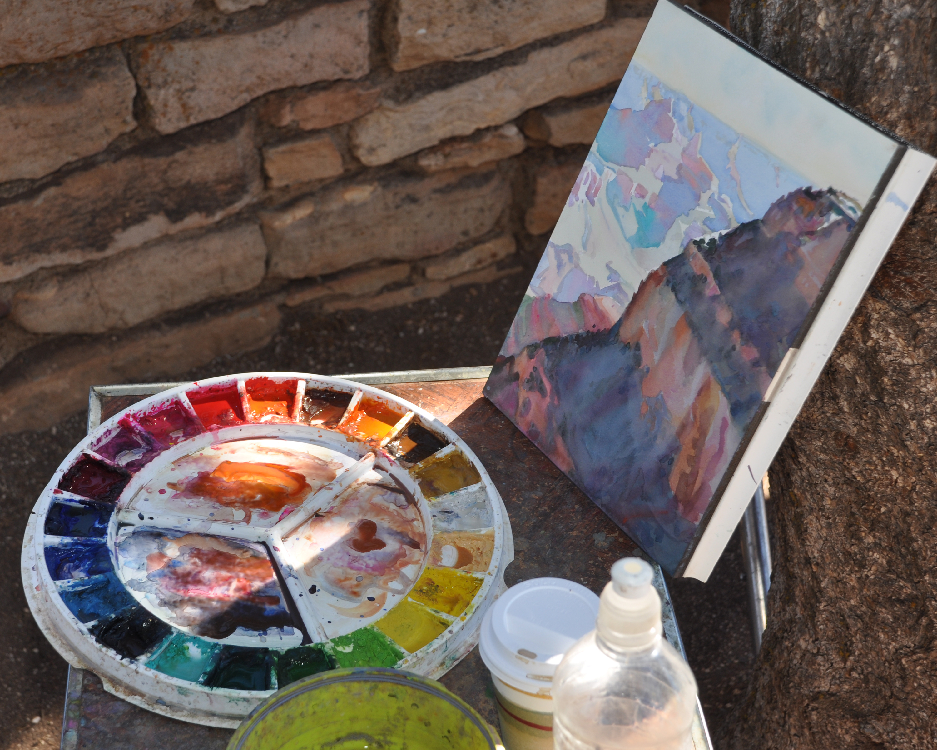 Glen Knowles' pallet and painting during the 2010 Celebration of Art.. . Hosted each year by the Grand Canyon Association, the Grand Canyon Celebration of Art is an annual event that includes 6 days of art related events followed by a month long exhibition in Kolb Studio on the South Rim of Grand Canyon National Park. . . The Celebration of Art features thirty artists from around the country who engage in a plein air competition and exhibition. Visitors have the opportunity to watch the artists paint as they seek to represent the shifting light and shadow, amazing land forms, and vibrant colors of this vast landscape. . . Each artist brings a completed studio piece with them and then creates more artwork on site during the "Plein Air on the Rim" and Quick Draw events that takes place in the historic district of Grand Canyon Village. During the auction that follows the Quick Draw event, Visitors have the opportunity to bid on the work and to bring a piece of Grand Canyon home. Proceeds from this event will support the goal of funding an art venue at the South Rim of the Grand Canyon. This permanent home will ensure that future generations of park visitors will be able to view the stunning art collection in the Grand Canyon National Park Museum and Grand Canyon Association Collections. NPS photo by Michael Quinn. . . . For more information about this year's Celebration of Art visit: . 2012 Dates: Artists "Plen Air on the Rim" September 8 - 12. Quick Draw Event and Auction (near El Tovar Hotel) September 14th . Exhibition & Art Sales September 14 - November 25, 2012